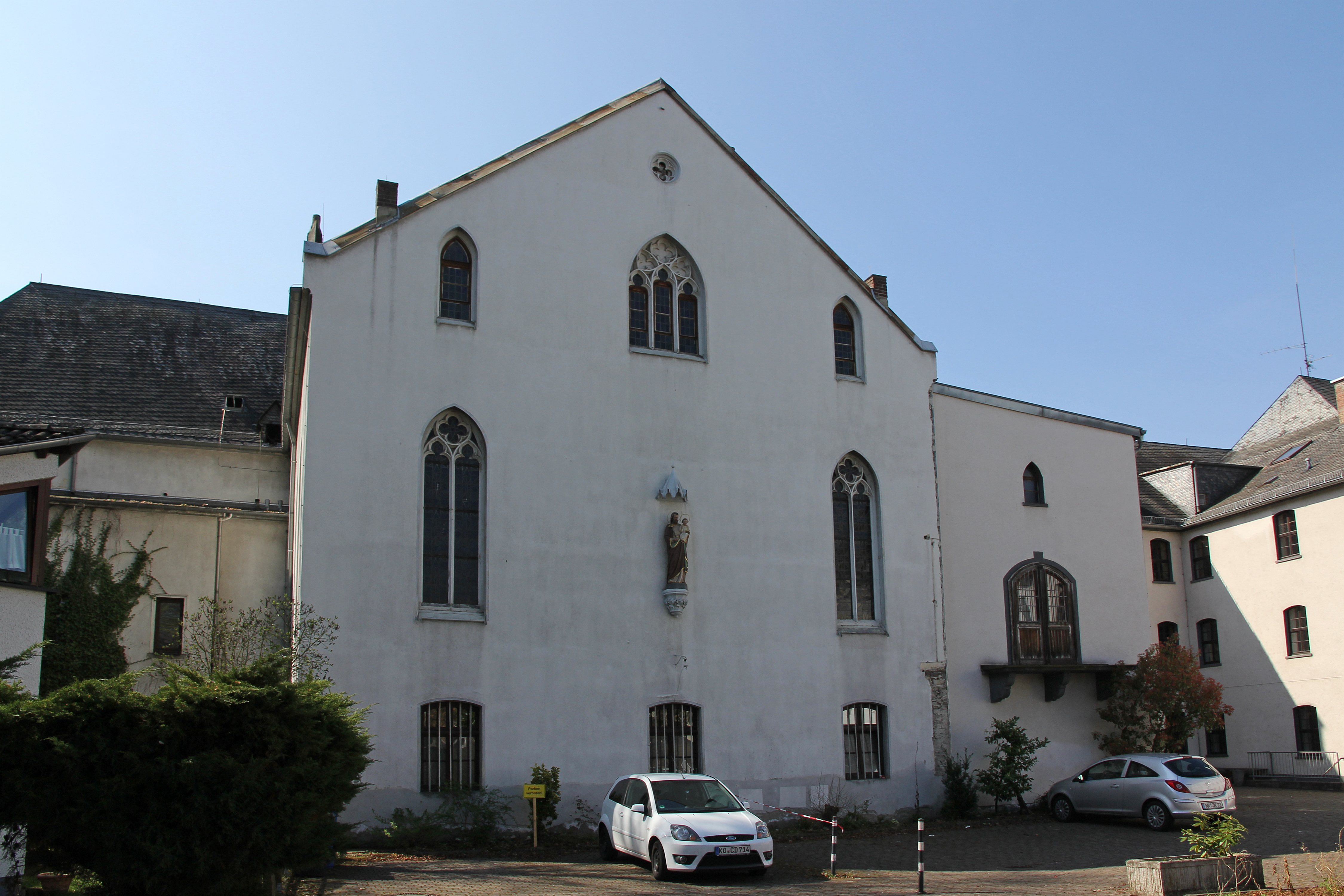 Former monastary of Salesian Sisters in Koblenz